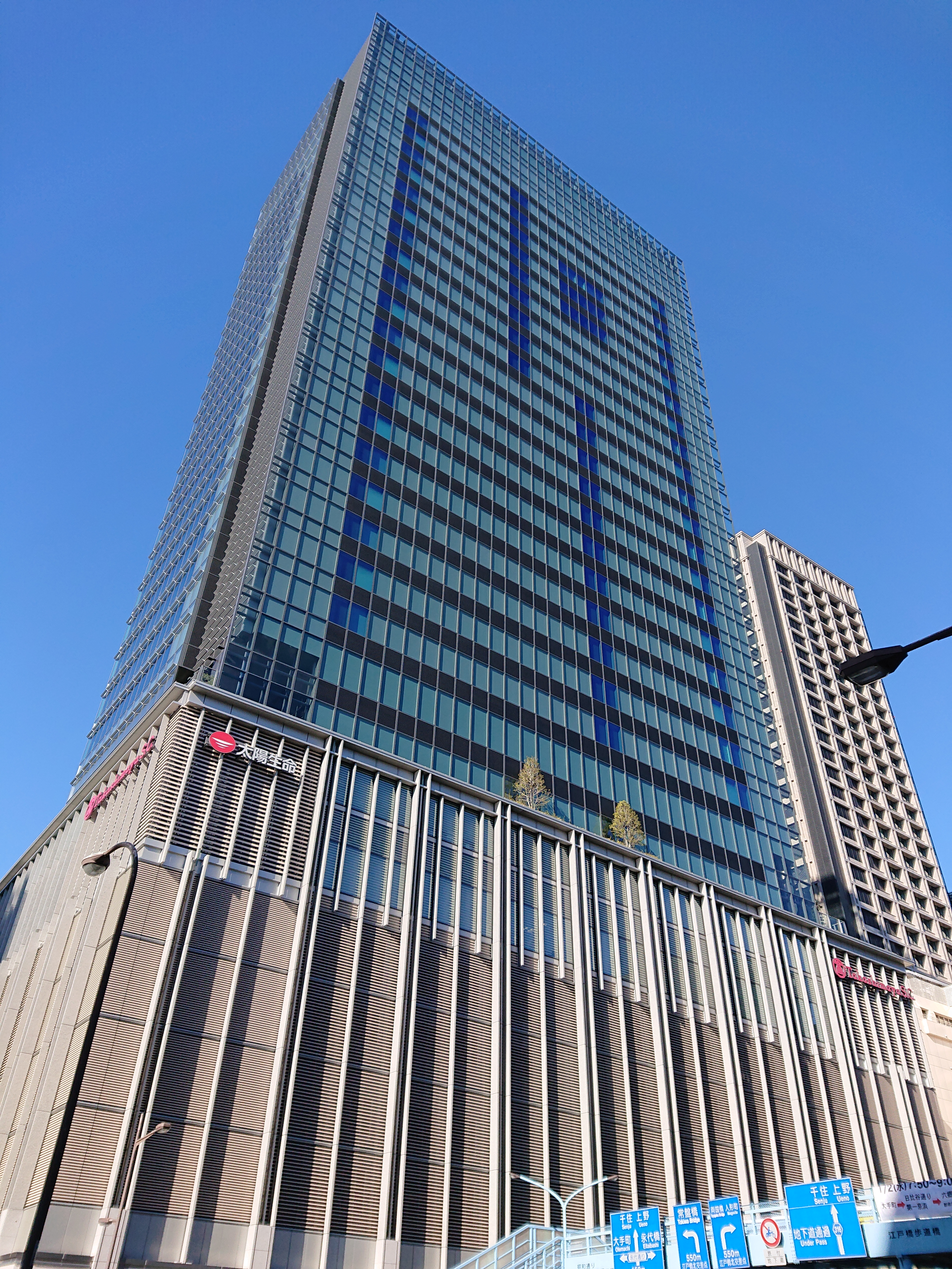 Taiyo Life Nihonbashi Building (太陽生命日本橋ビル), located at 2-11-2 Nihonbashi, Chuo, Tokyo, Japan